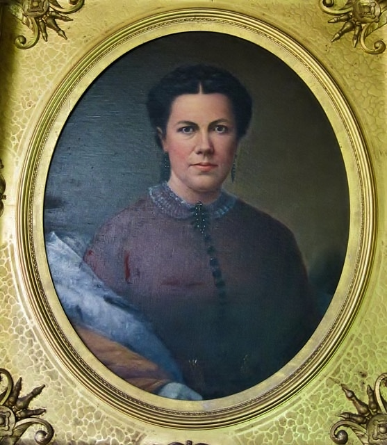 Photograph of an oil painting of Julie Palmer Smith from sometime in the 1850s, when she was in her 30’s. Julie Smith (sometimes referred to as Julia Smith) was a romance novelist who lived in Hartford and New Hartford, Connecticut. She and her husband, Morris Smith, owned the Esperanza estate in New Hartford. A matching portrait of Morris also exists. The artist of this painting is unknown; if there is a signature, it's hidden by the frame.